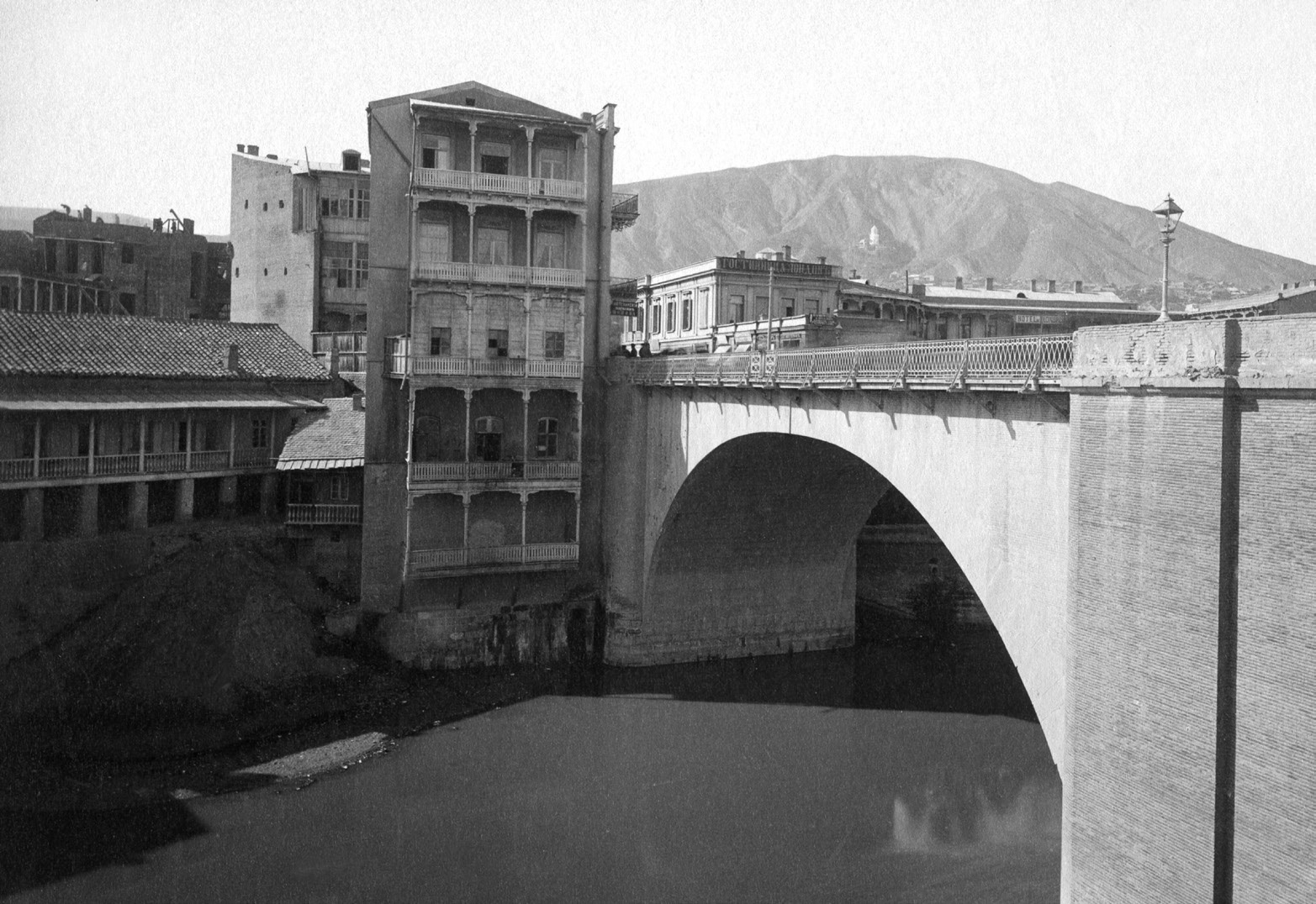 Grand Hotel, Tiflis (Photo by D. Ermakov)